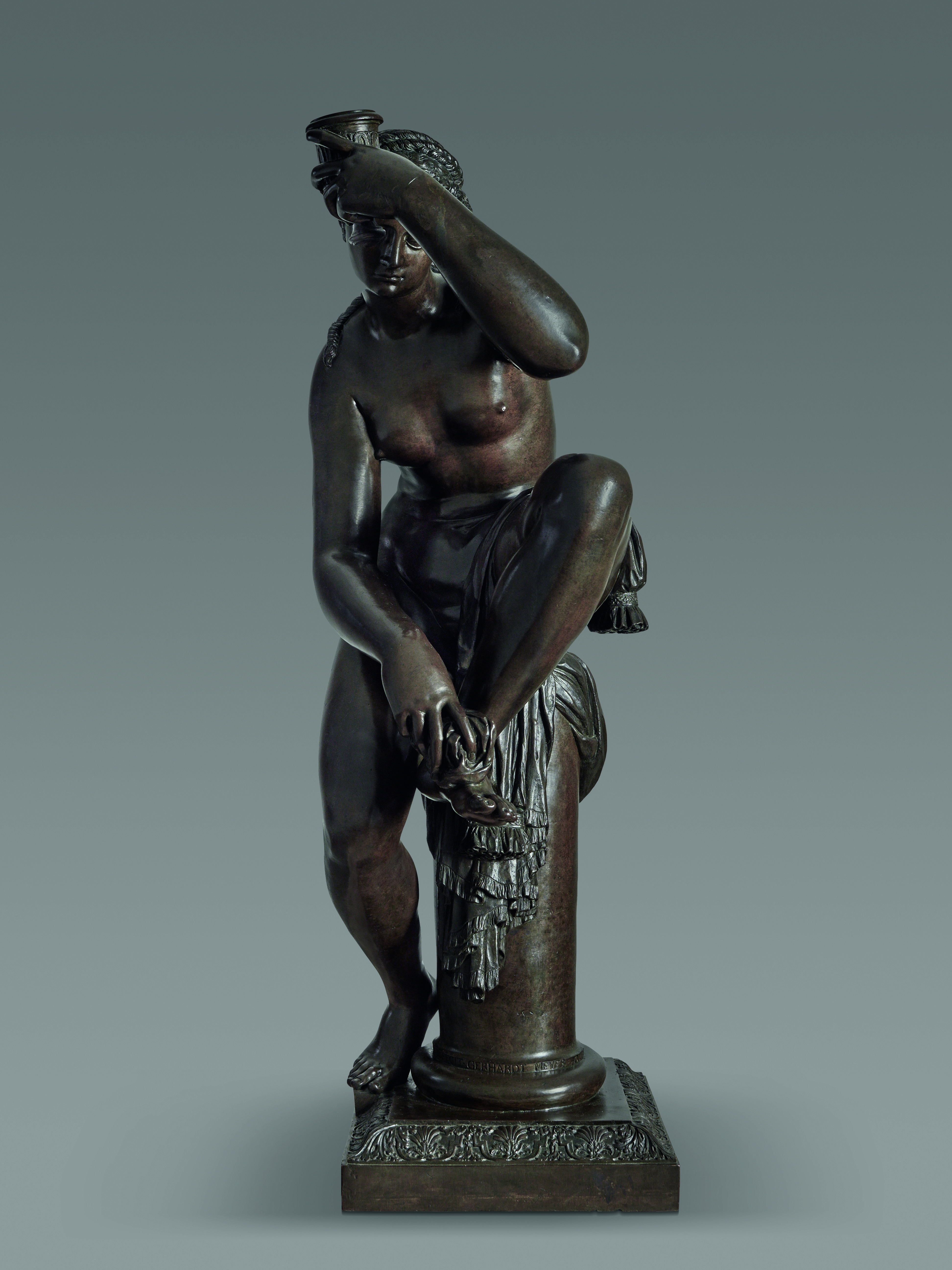 Artist: Giambologna Year: 1597 Type: Bronze sculpture Dimension: 1,12 m height Owner: Private Collection